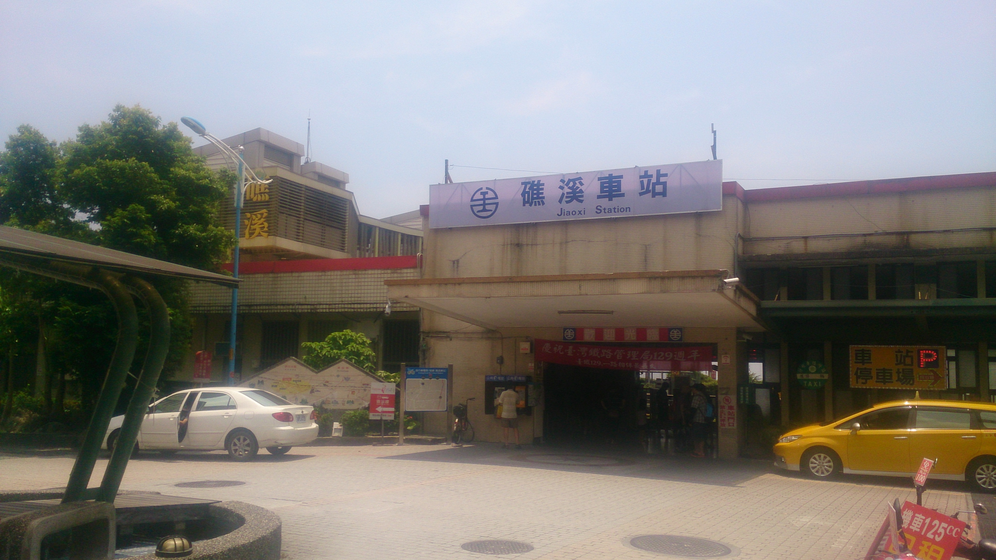 TRA Jiaoxi Station. 中文（台灣）: 臺灣鐵路管理局礁溪車站。